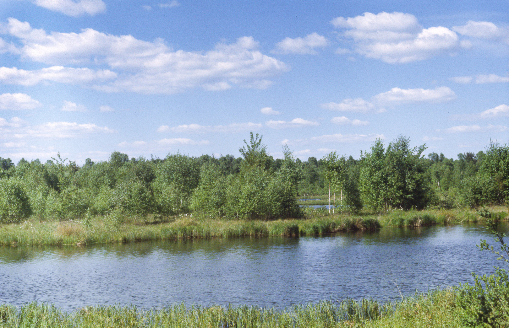 Jack's Swamp Nature Reserve - the southern reservoir (A), the middle reservoir (B) in the background. Wesoła, Warsaw, Poland. This is a photography of Natura 2000 protected area with ID PLH140034